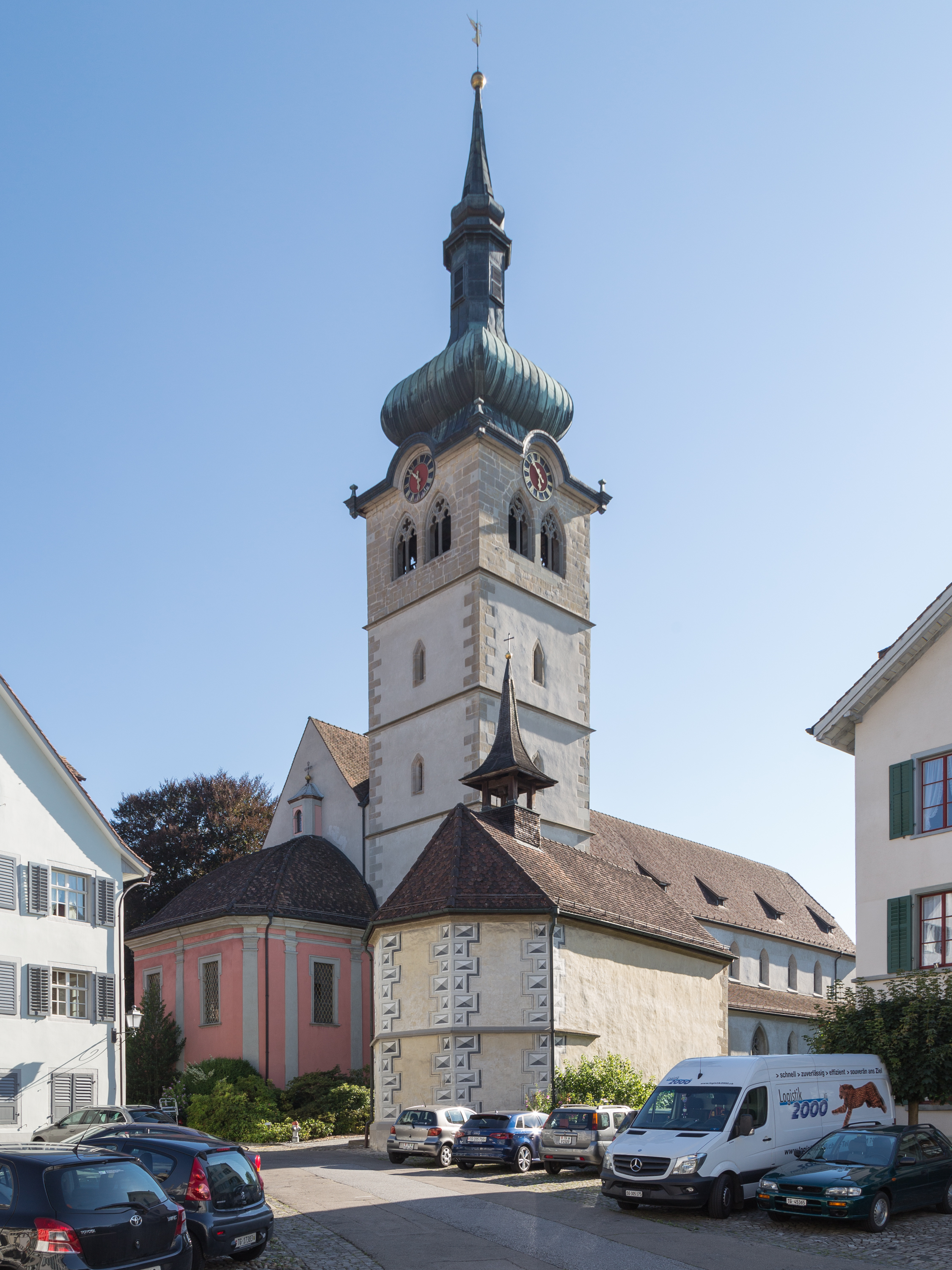 Catholic church Saint Pelagius and chapelle Saint Michael in Bischofszell, Switzerland